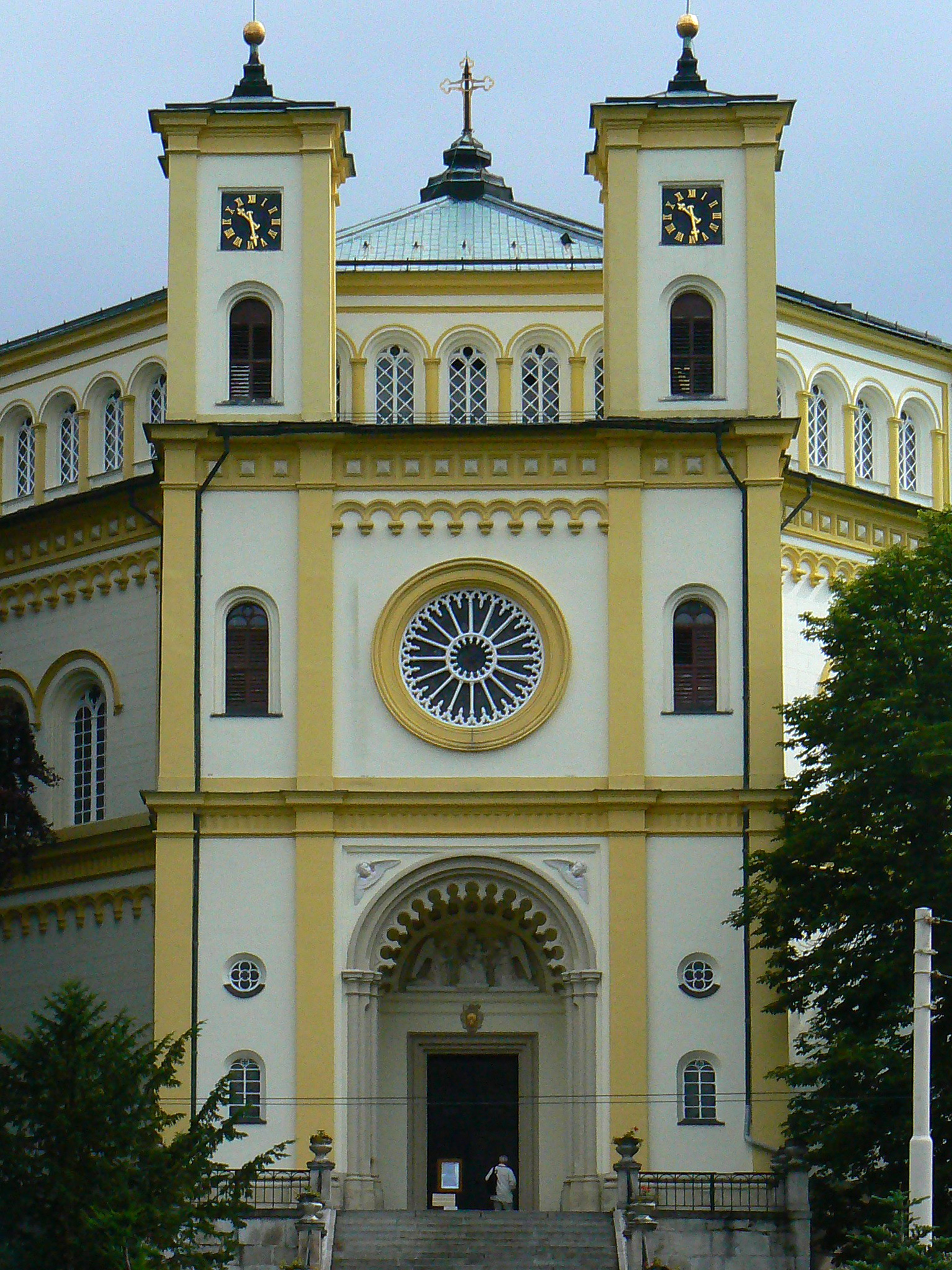 Virgin Mary Assumption Church in Mariánské Lázně, Czech Republic